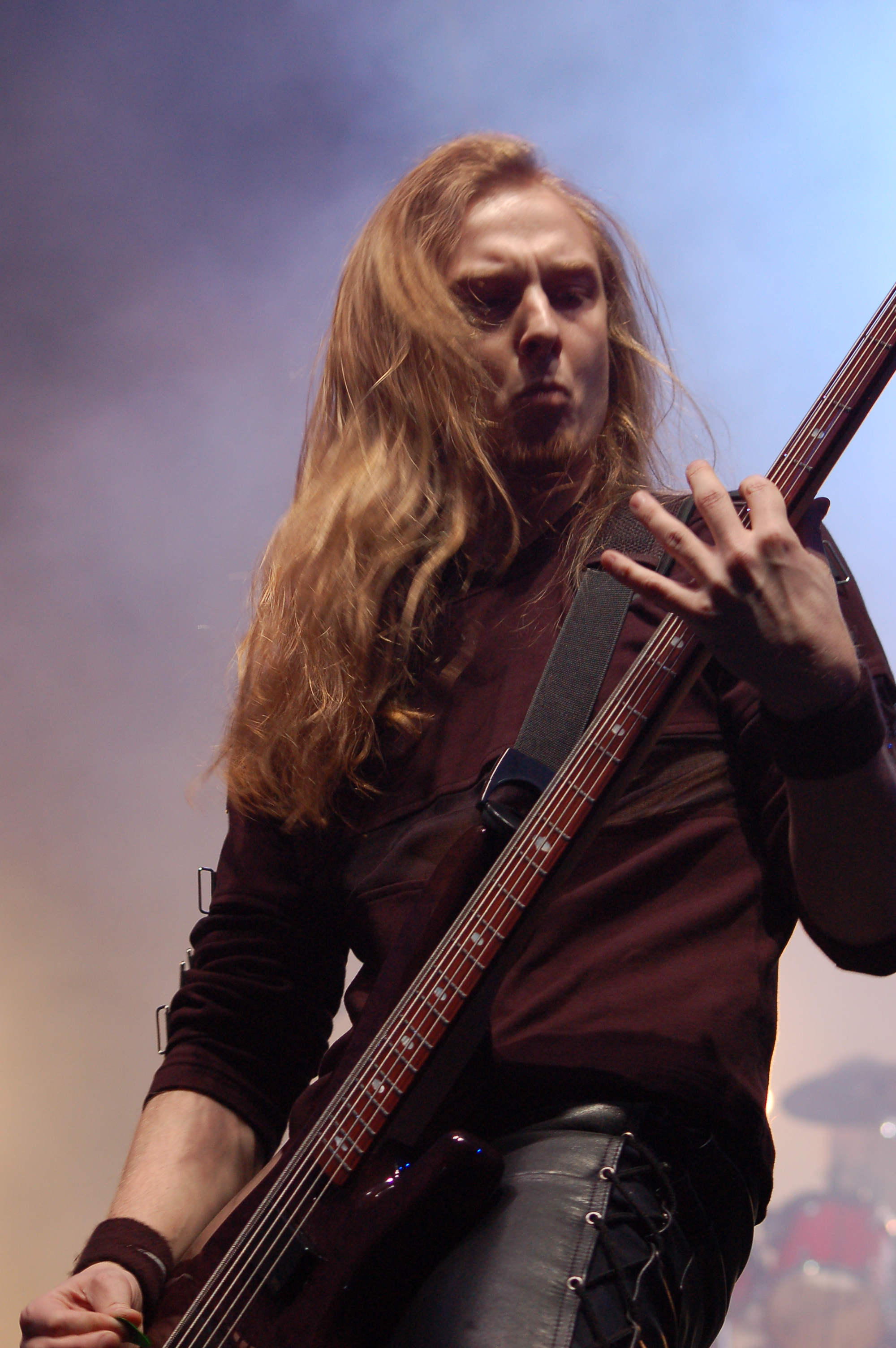 Krzysztof "Bacchus" Kłosek from Darzamat during Metalmania 2007 festival.